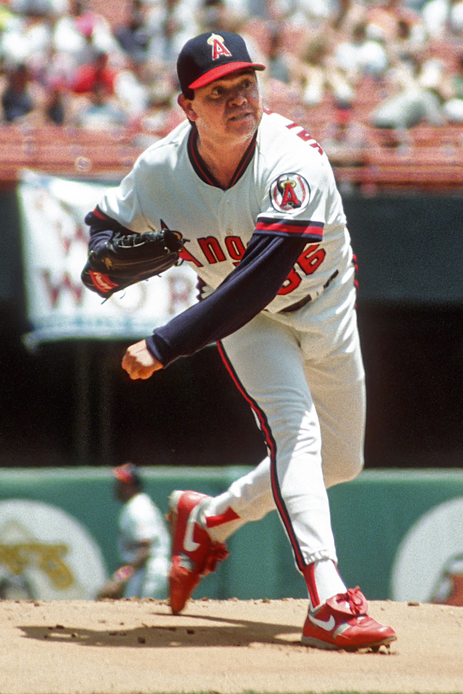 After working a game in San Diego for ESPN, I stopped by Anaheim Stadium on my way home on June 12, 1991 to watch and photograph former teammates from the Brewers and the Angels. Here's a look at the best shots from that game.